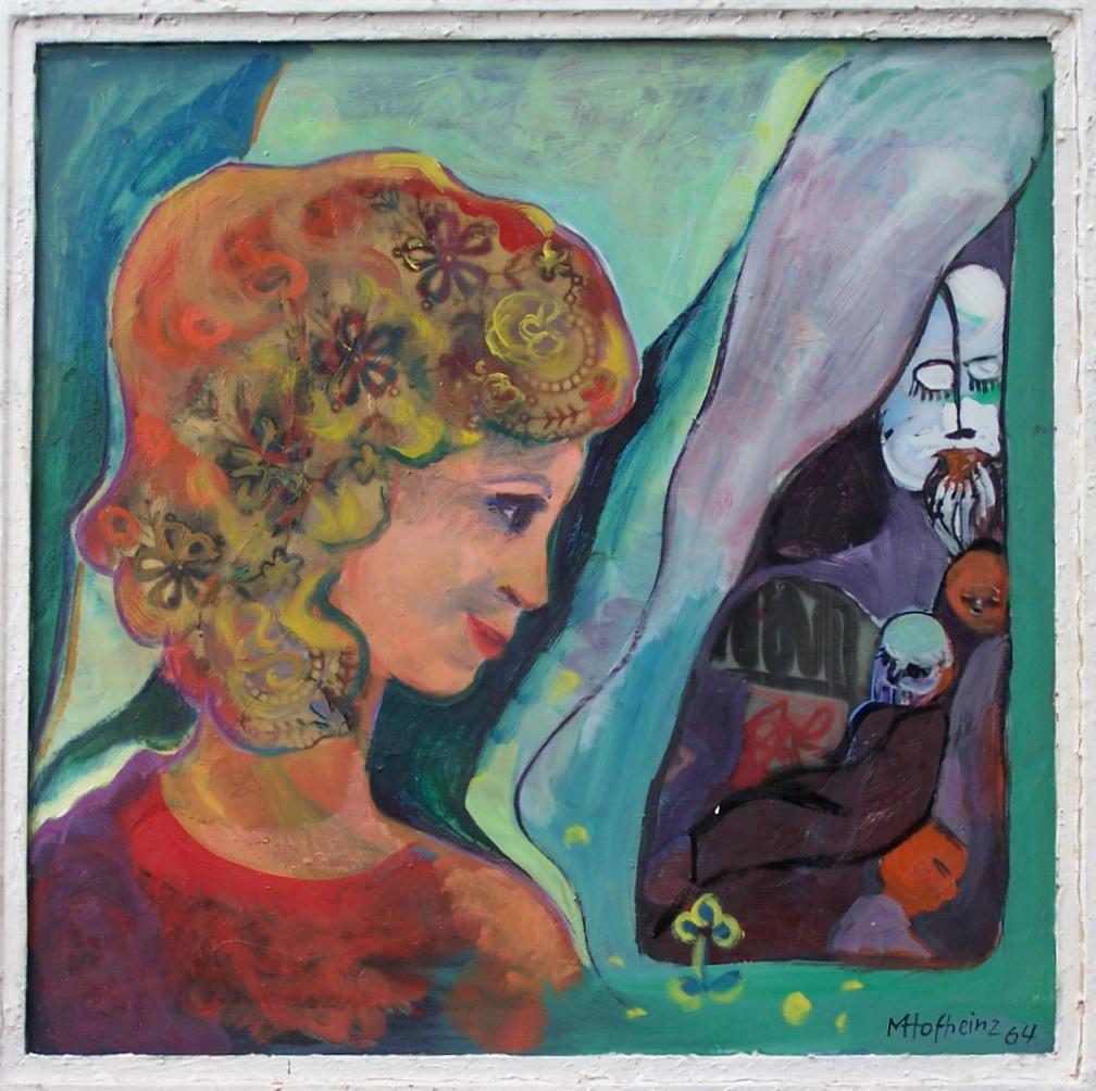 Shadow of past times, reverse painting on glass, 60x58 cm, WV-Nr.2831